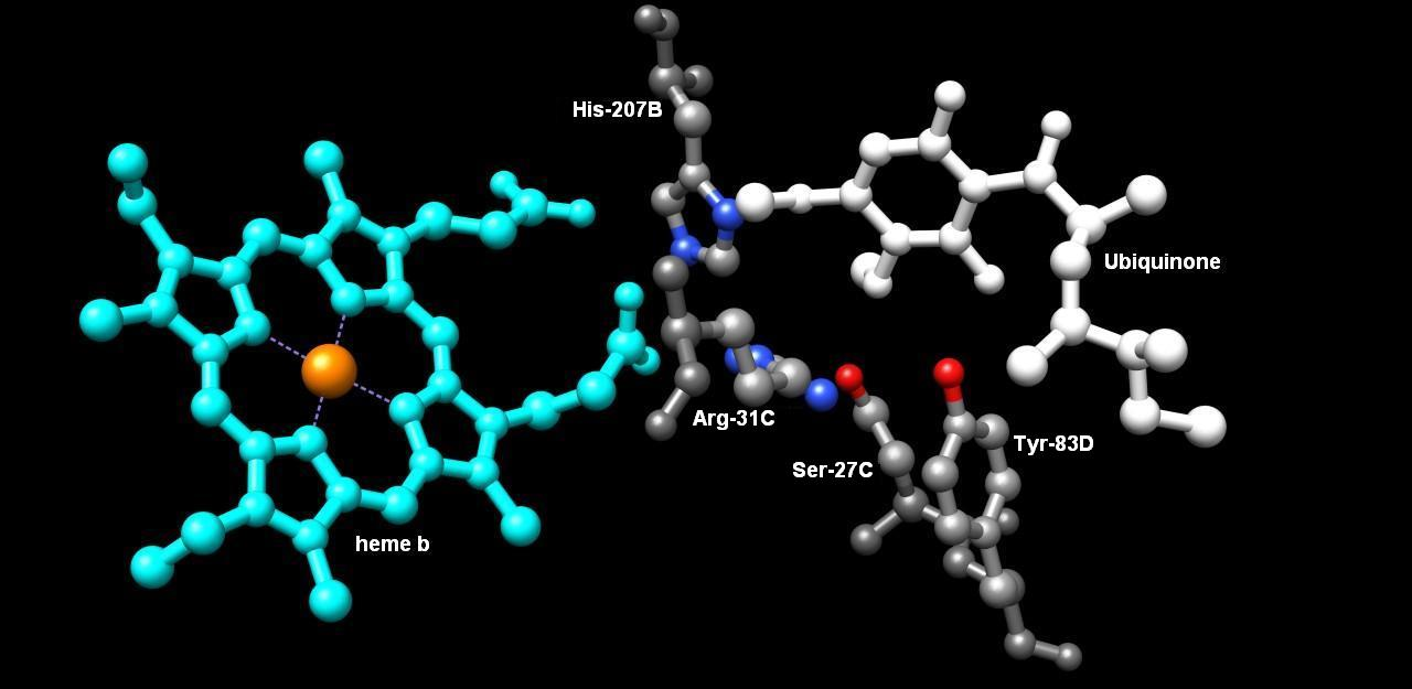 Ubiquinone’s binding site is located in gap comprised of SdhB, SdhC, and SdhD. Ubiquinone is stabilized by the side chains of His207 of subunit B, Ser27 and Arg31C of subunit C, and Tyr83 of subunit D. These side chains are shown in grey. Nitrogens are blue and oxygens are red. Ubiquinone is shown in white and the heme group (aqua) is also shown. Tyr83 forms an additional hydrogen bond to Arg31 of subunit C, which allows a proton to directly translocate from the Tyr83 to ubiquinone when it is reduced. The quinone ring is surrounded by Ile28 of subunit C and Pro160 of subunit B. These residues, along with Ile209, Trp163, Trp164 of subunit B, and Ser27 of subunit C, form the hydrophobic environment of the quinone-binding pocket (not shown in the image).